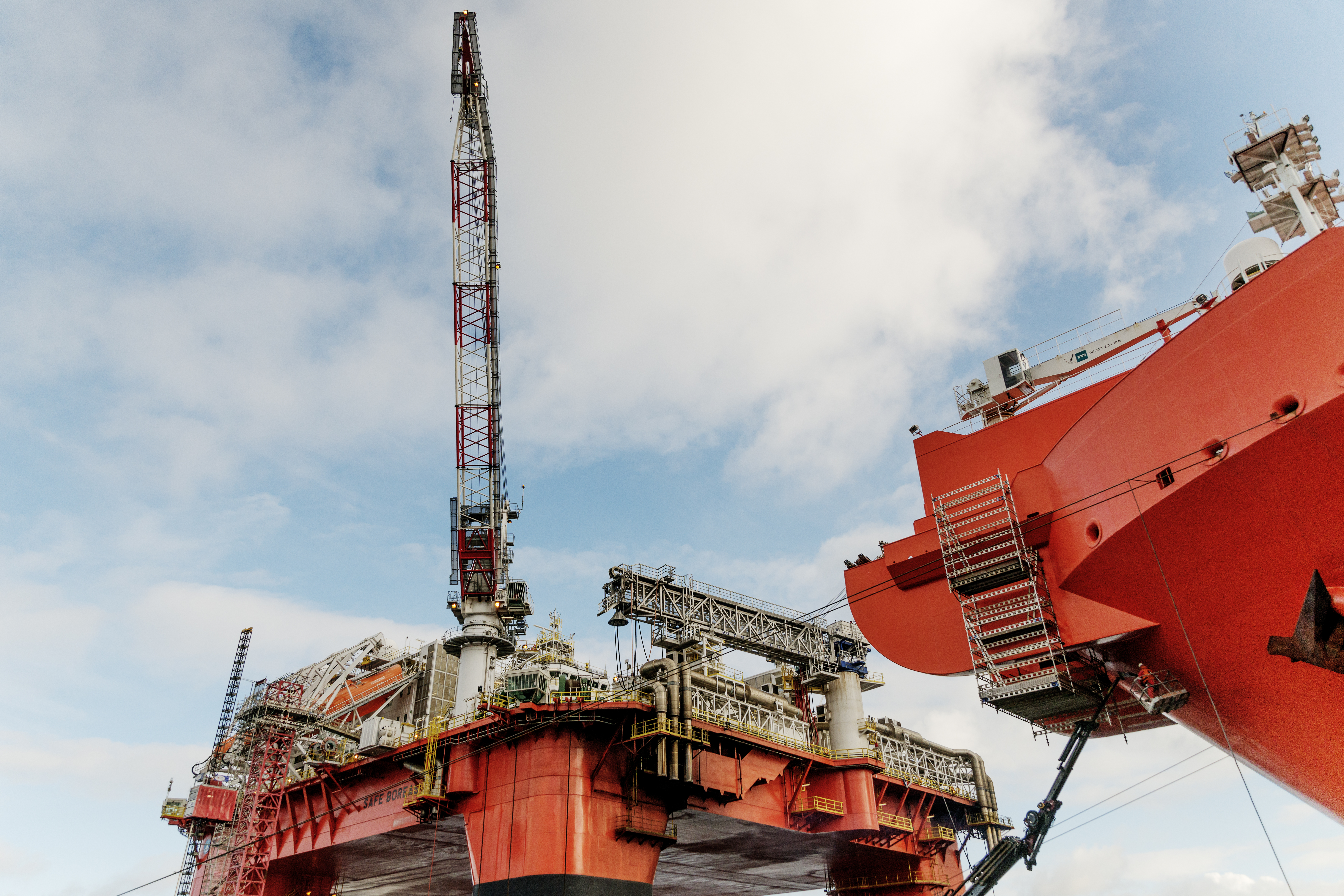 Bilder fra riggen Safe Boreas ved kai i Mekjarvik utenfor Stavanger. Foto: Tommy Ellingsen / Norsk Olje & Gass Pictures from the rig Safe Boreas while docked in Mekjarvik outside of Stavanger. Photo: Tommy Ellingsen / the Norwegian Oil and Gas Association